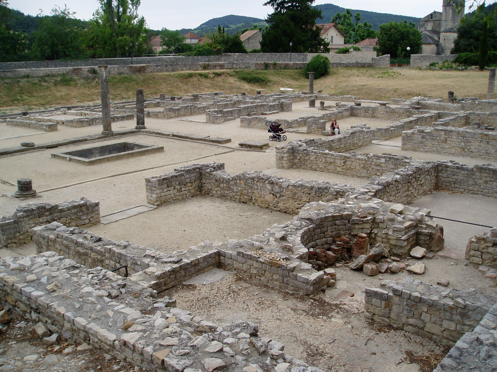 Roman domus at the archaelogical site in Vaison-la-Romaine, France.